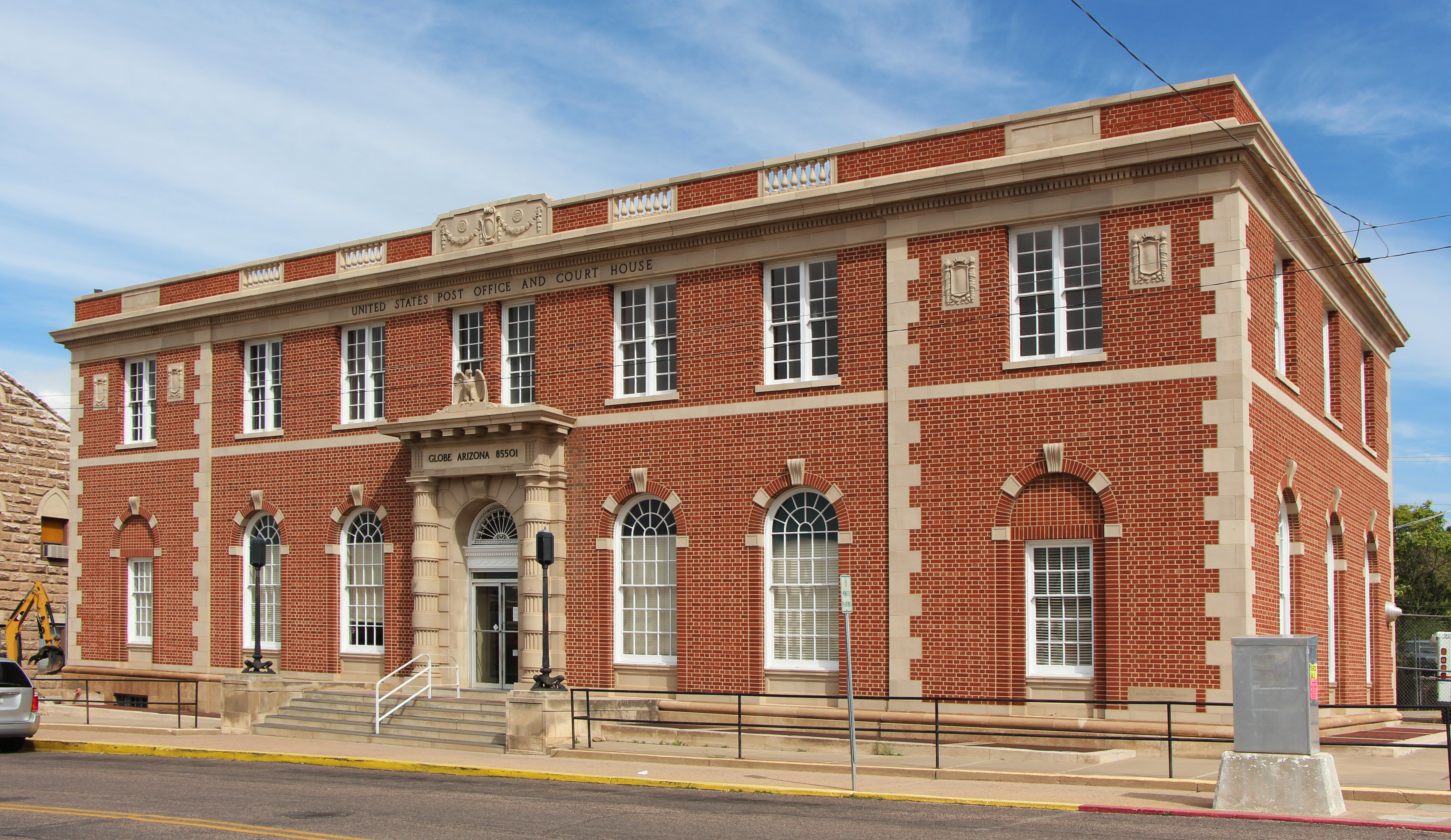 United States Post Office and Courthouse, northeast corner of Hill Street and Sycamore Street, Globe, AZ